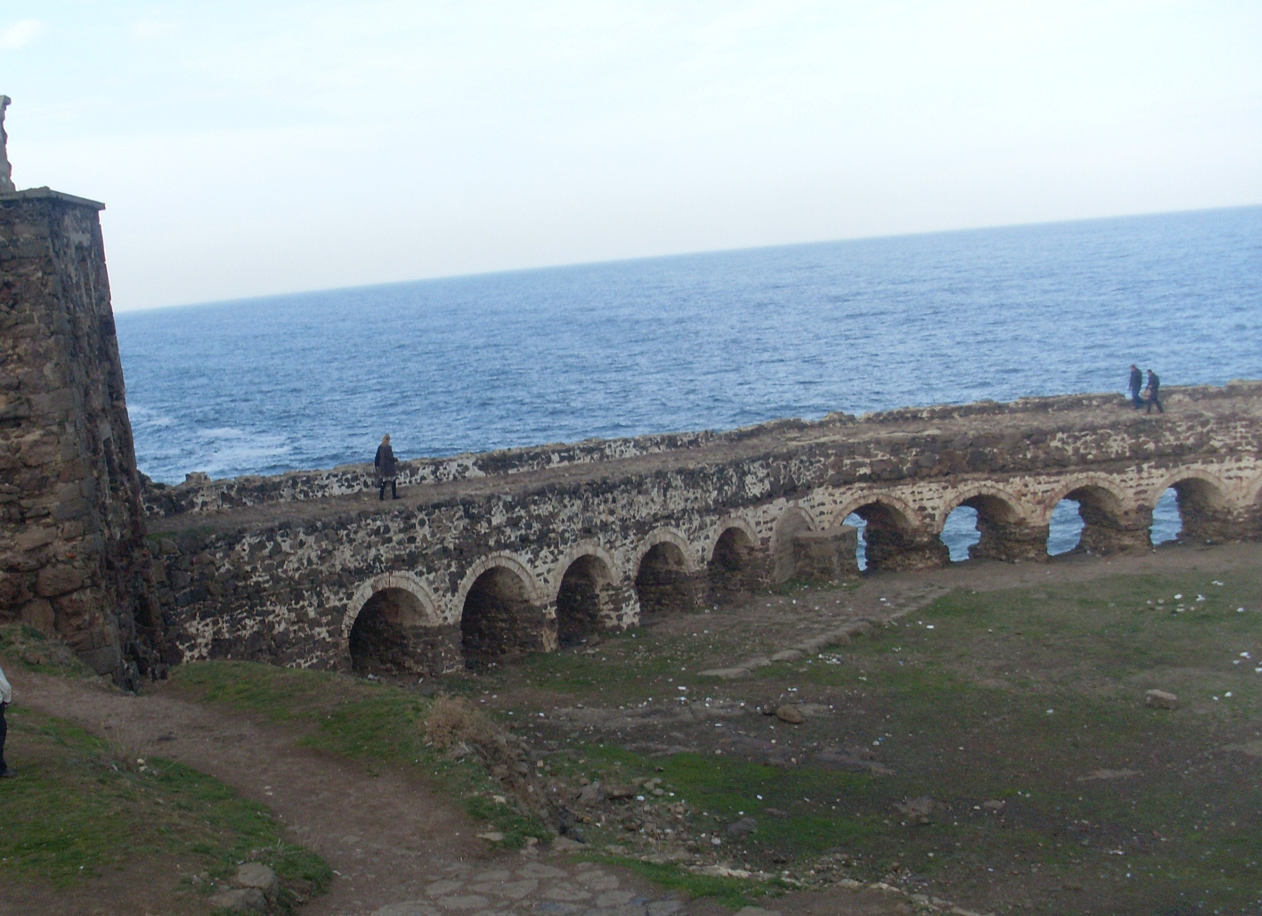 Rumeli Feneri Castle p4, Jan 2014